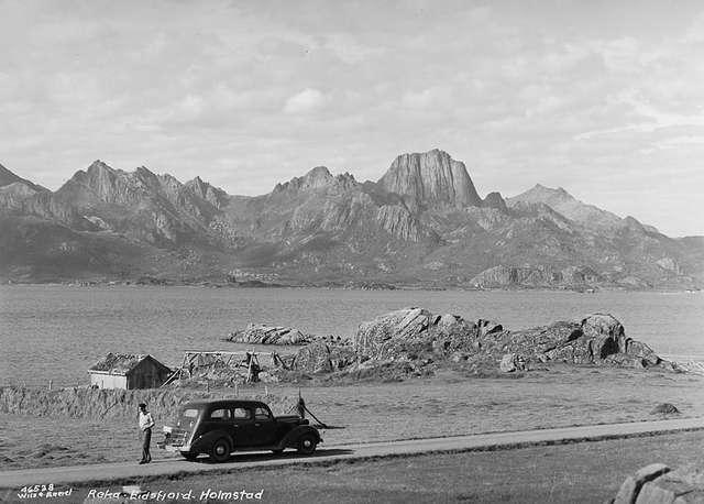 From Holmstad across Eidsfjorden in Nordland, Norway, towards mount Ræka (Reka)